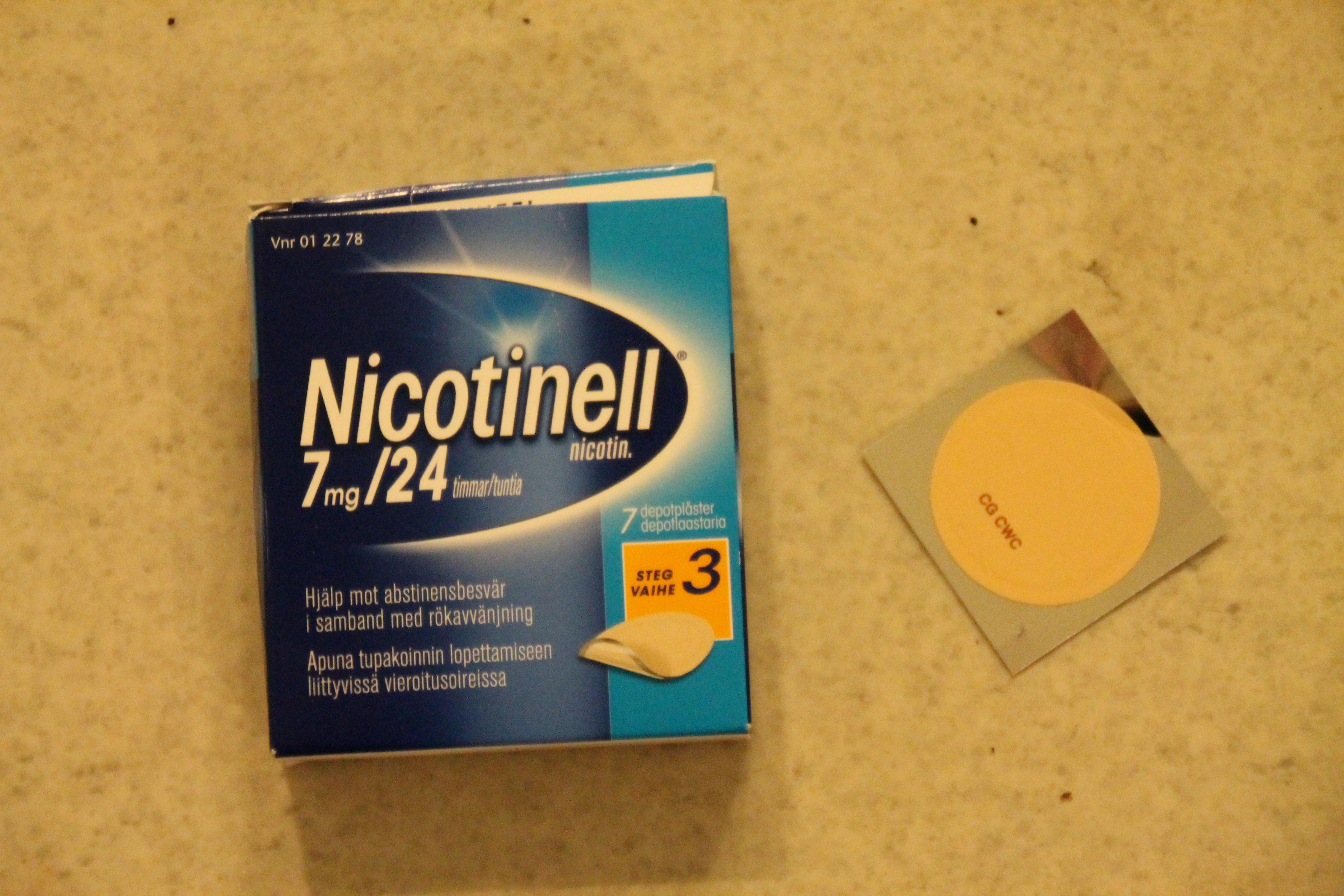 7mg Nicotinell -nicotine patch